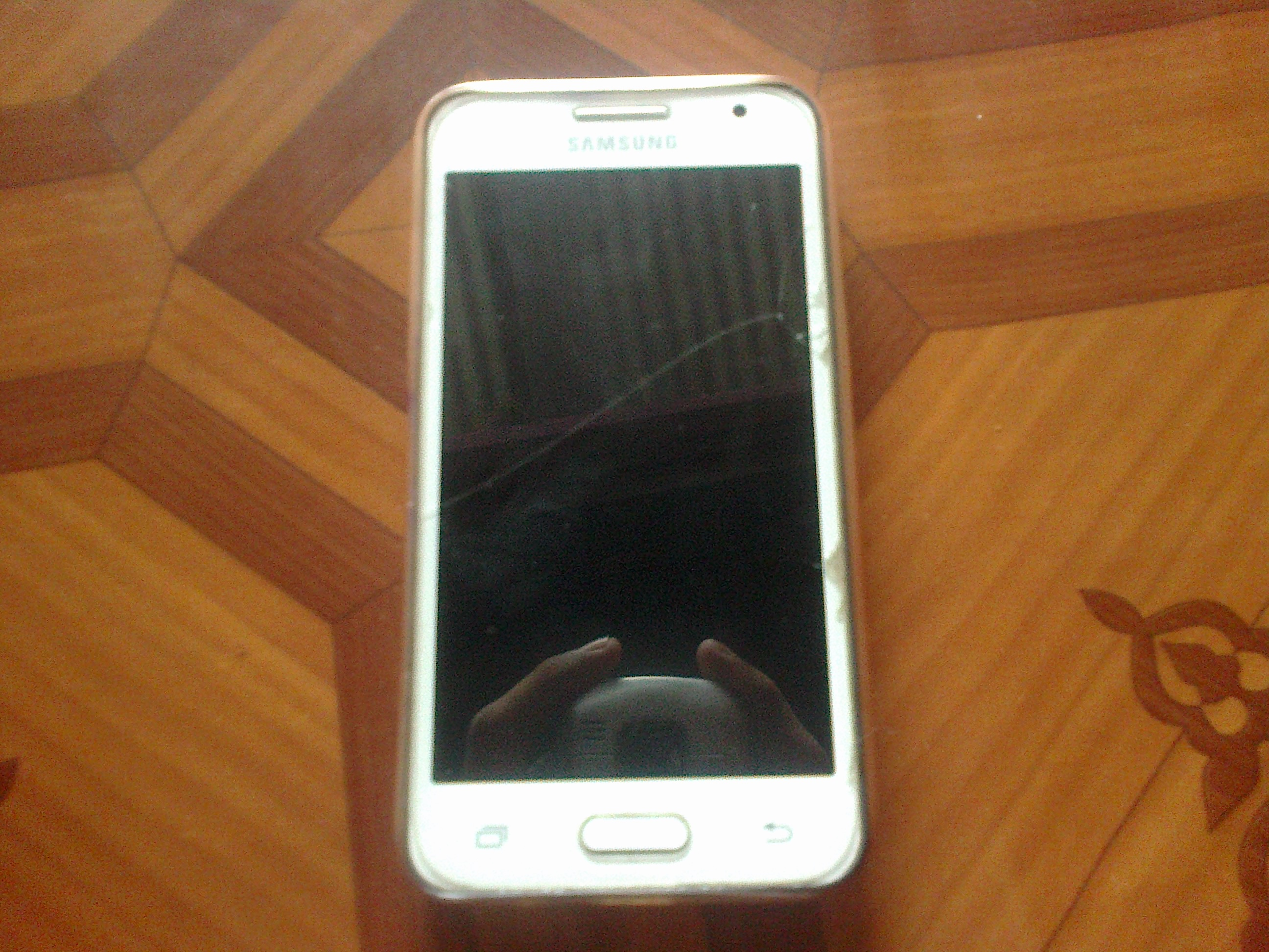 Samsung galaxy core 2 picture